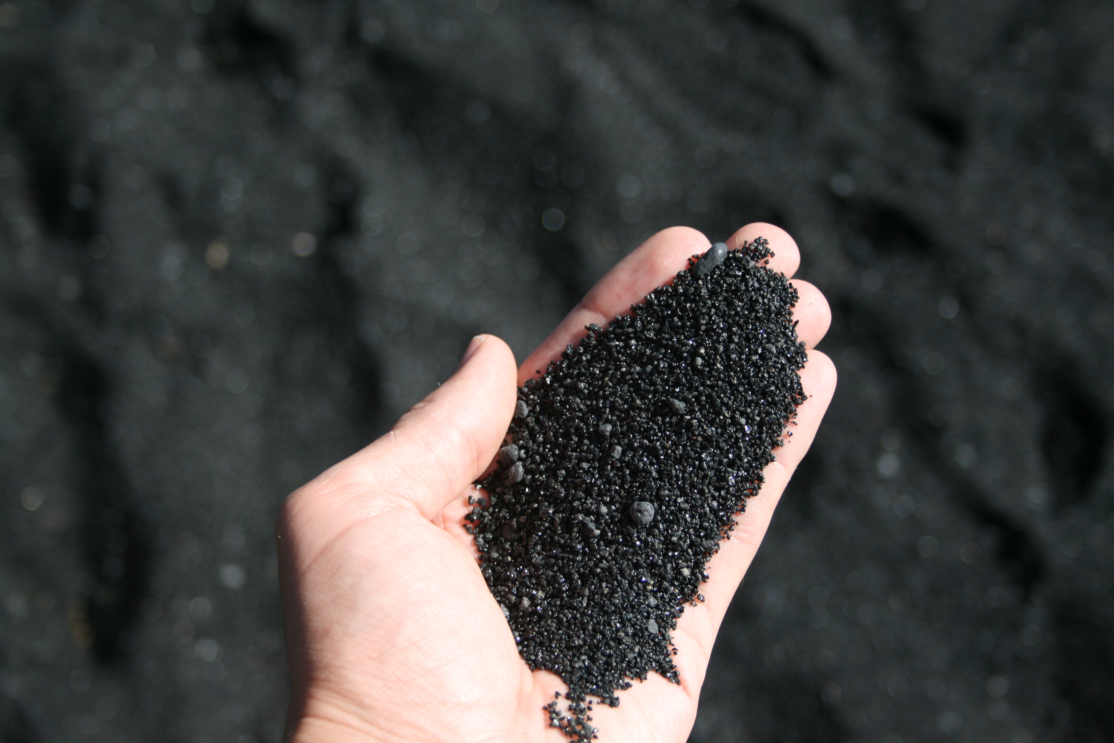 Black sand of Punaluu Black Sand Beach, island of Hawai’i.